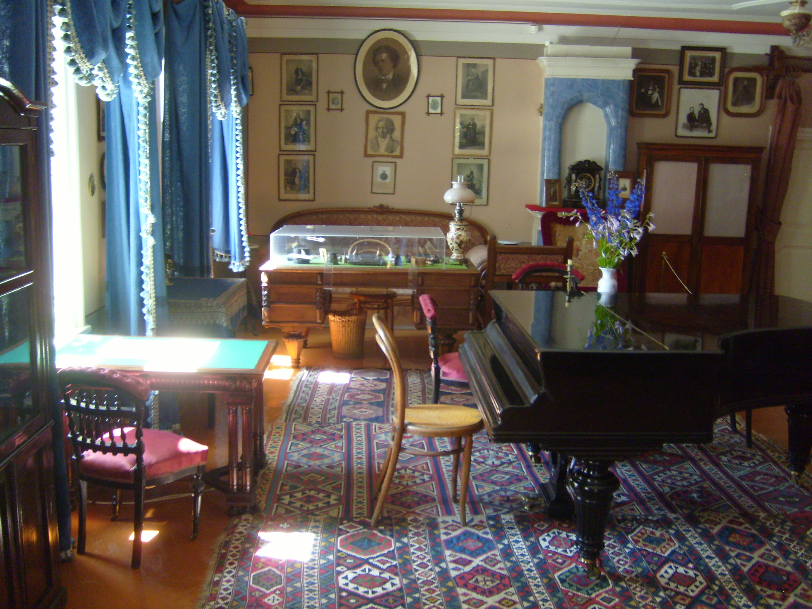 The salon of the Tchaikovsky House in Klin, with his grand piano and desk.